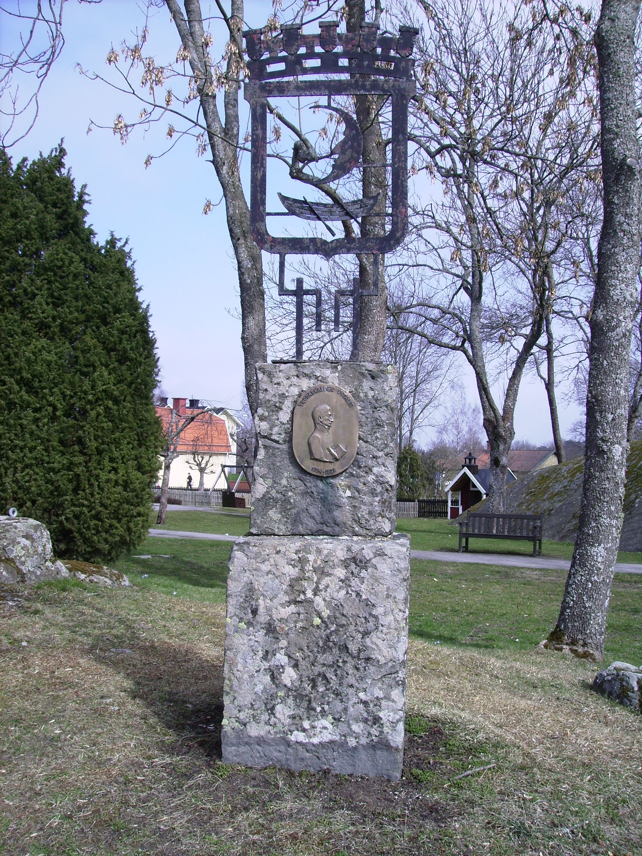 Erik "Vitalis" Sjöberg monument in Trosa, Sweden